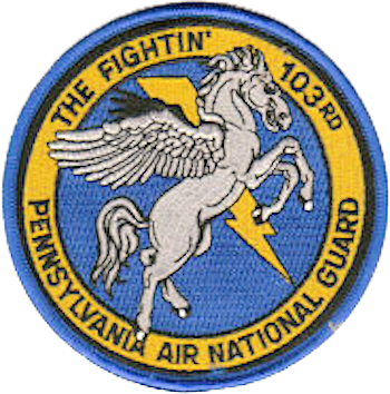 103d Fighter-Interceptor Squadron - Emblem